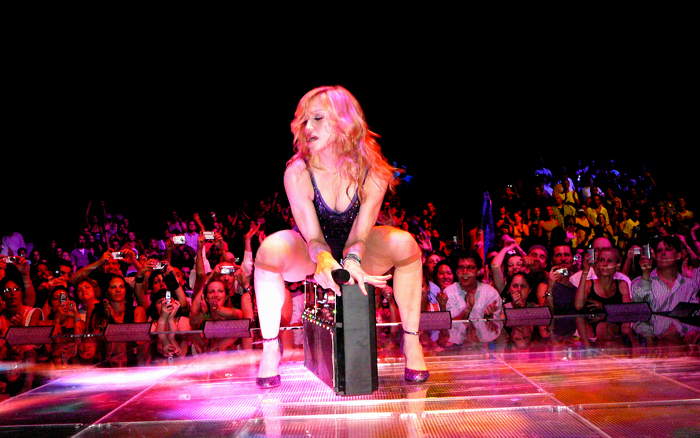 I took this photo of Madonna with her boombox during the 'Hung Up' performance at her Confessions Tour showing in Philadelphia. It is entirely my own work.